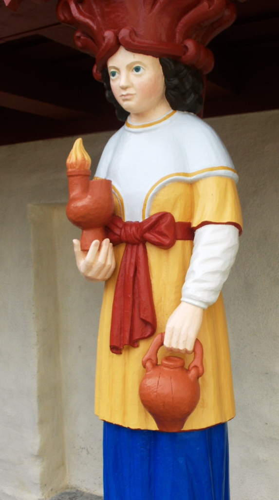 Karyatide in courtyard at Austråttborgen (en: The Manor of Austrått), built 1656, in Ørland, Norway